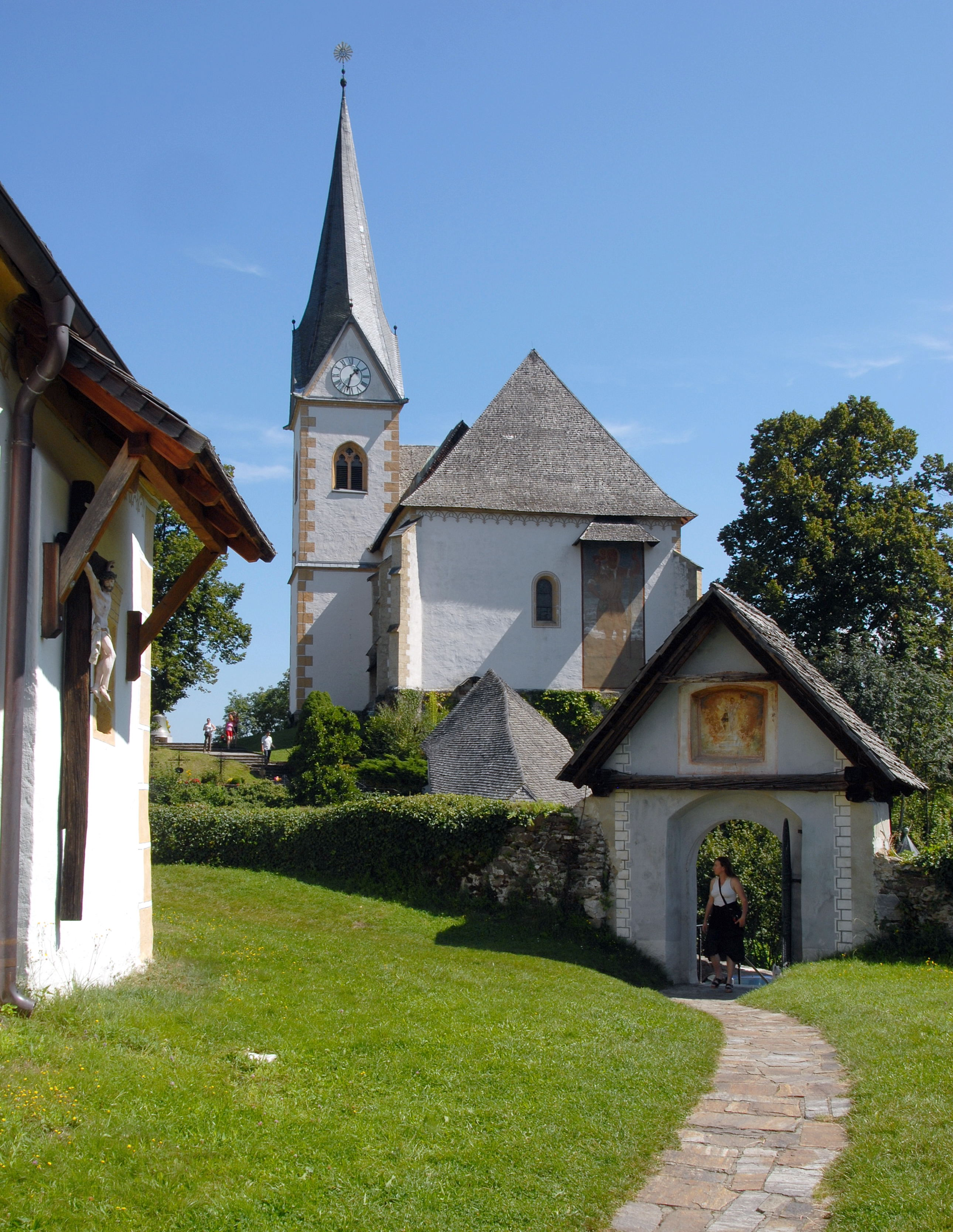 Pilgrimage church Saints Primus and Felician in Maria Woerth, municipality Maria Woerth, district Klagenfurt Land, Carinthia, Austria